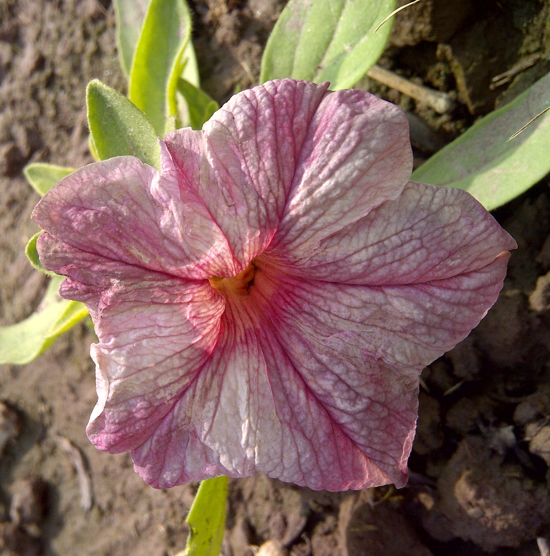 Petunia at Hyatabad Medical Complex Peshawar